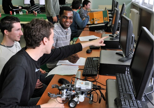 IMERIR pedagogy